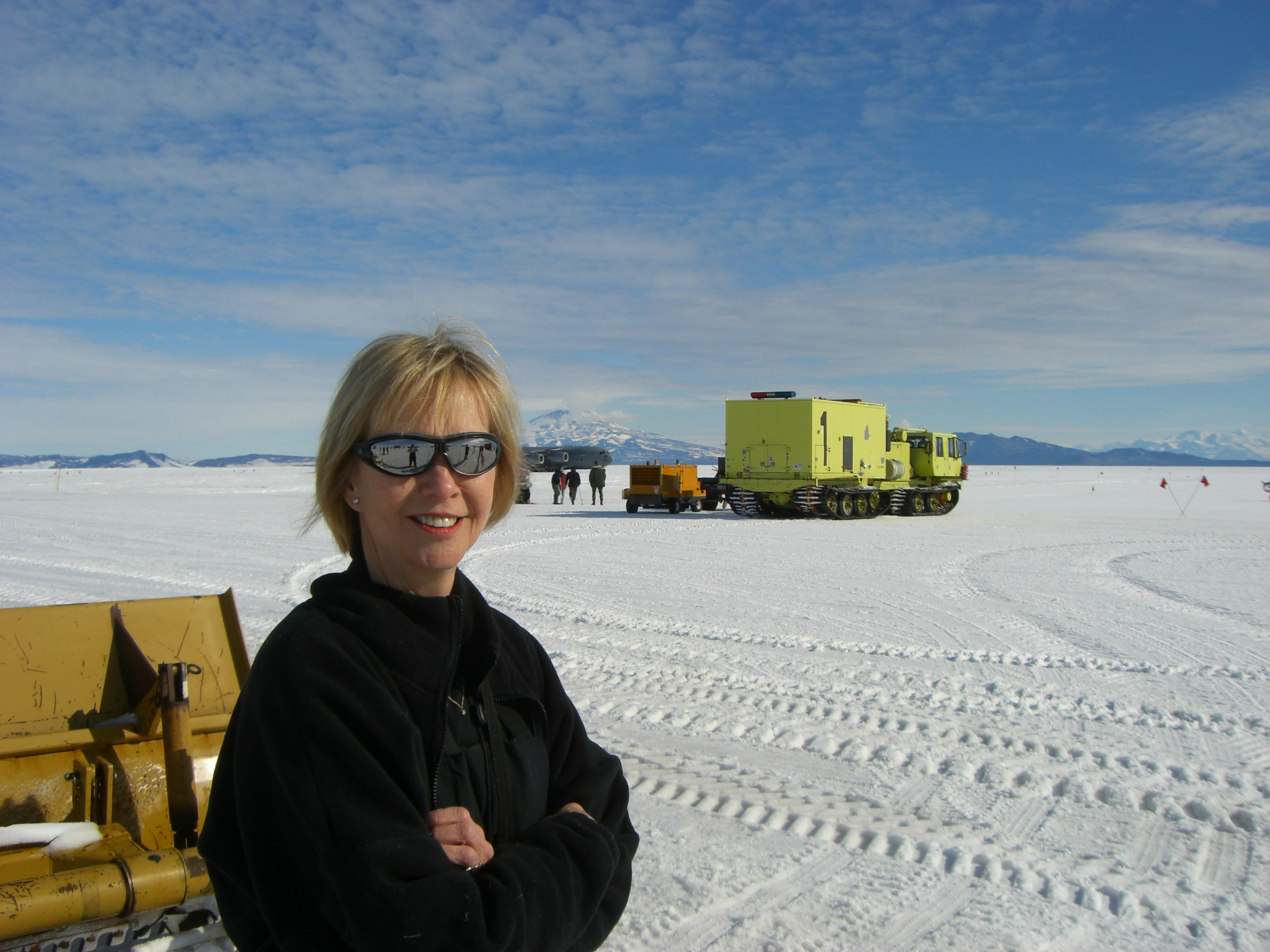 Image of Diana Wall